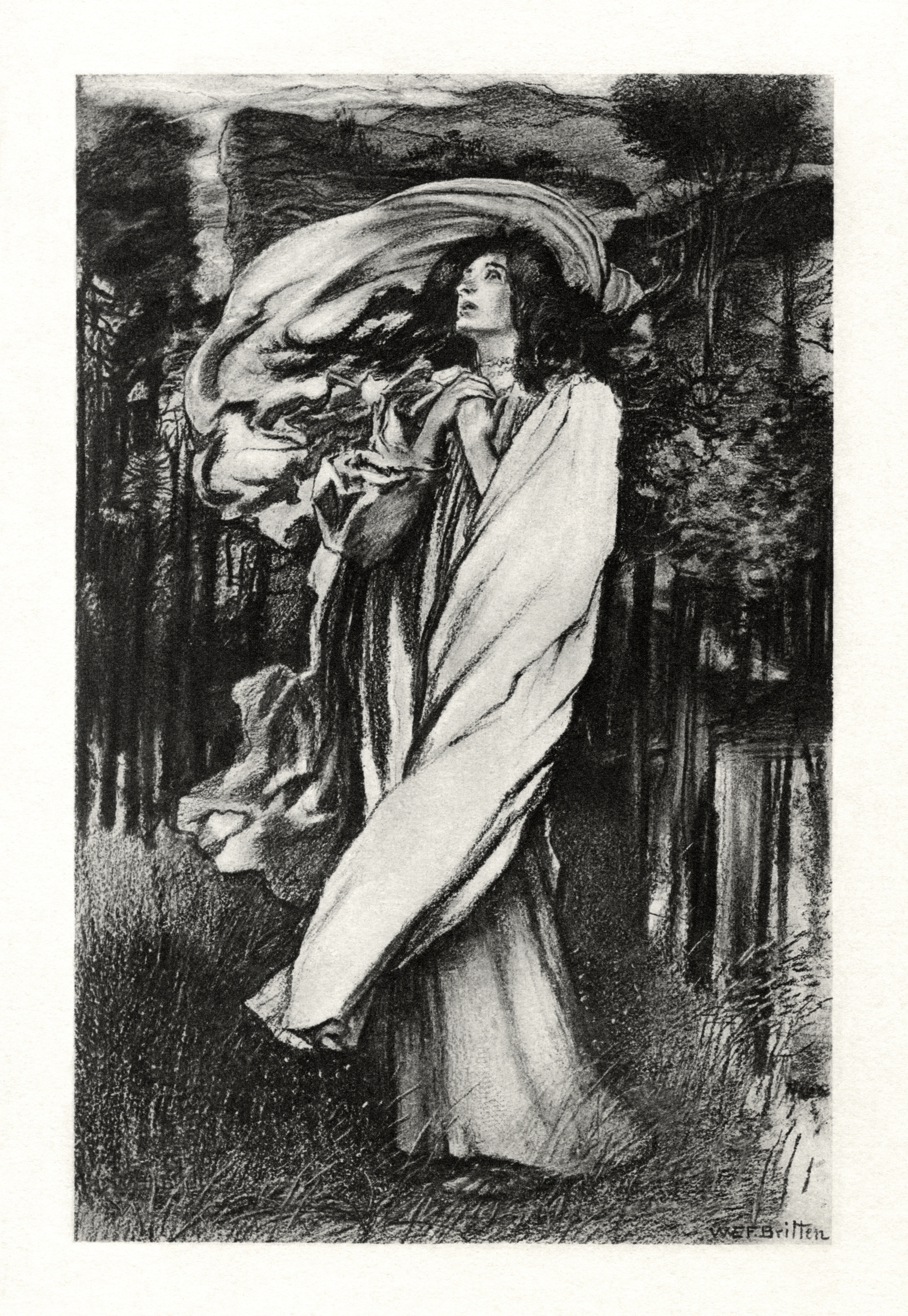 Illustration to Tennyson's "Œnone" by W. E. F. Britten: "O mother Ida, many-fountain'd Ida, / Dear mother Ida, harken ere I die"